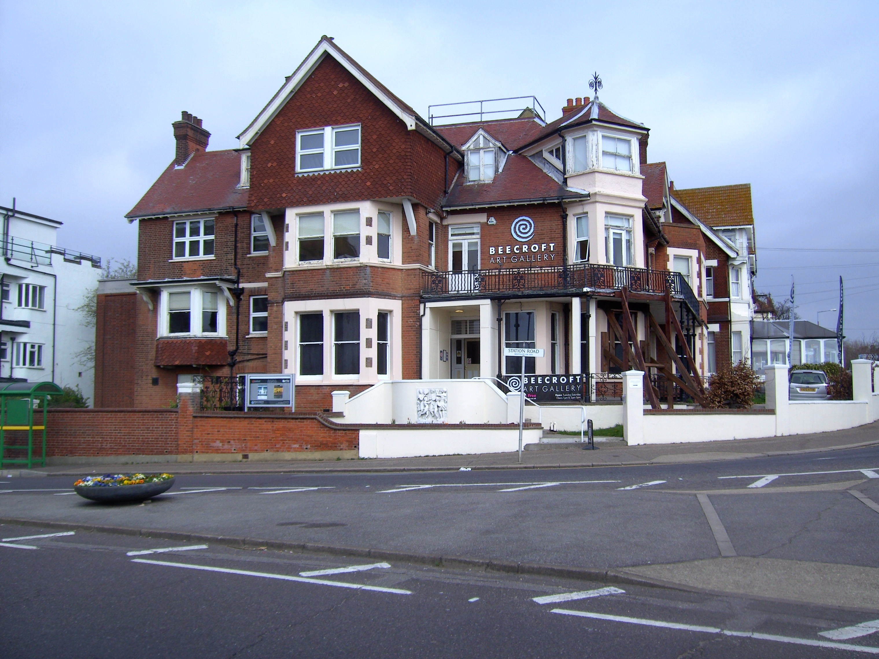 Beecroft Art Gallery as it was in March 2012.